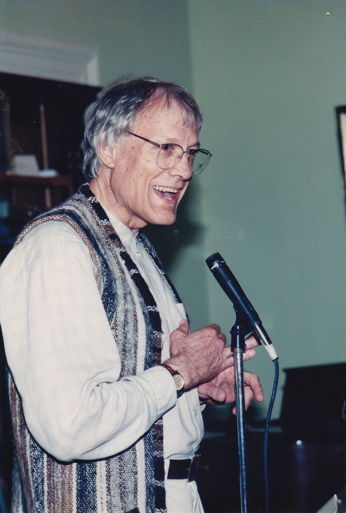 Walter Wink preaching, from the Fellowship of Reconciliation archives. I, acting as a staff member on behalf of the Fellowship of Reconciliation, am publishing this photo under the Creative Commons Attribution-ShareAlike license. It is also posted on the FOR Flickr page, with its license noted.